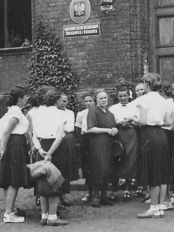 Maria Łowmiańska w otoczeniu swoich uczennic z Liceum im. Dąbrówki w Poznaniu